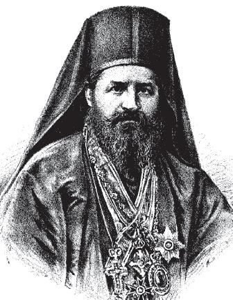 Etching portrait of Ghenadie Petrescu, the deposed Metropolitan of Wallachia (Metropolitan-Primate of Romania). Published in Familia literary magazine.